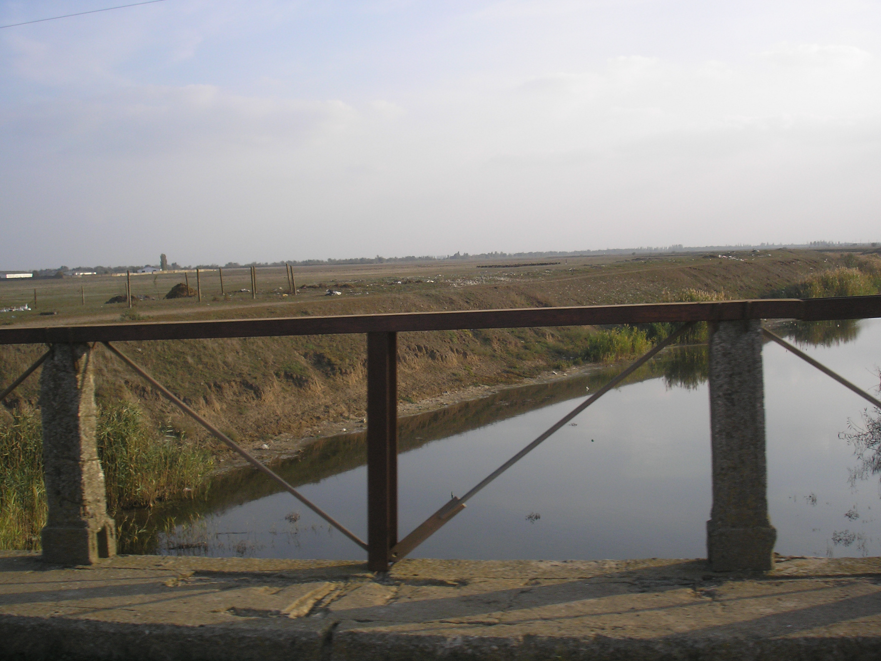 River Zavetleninskaya Crimea.